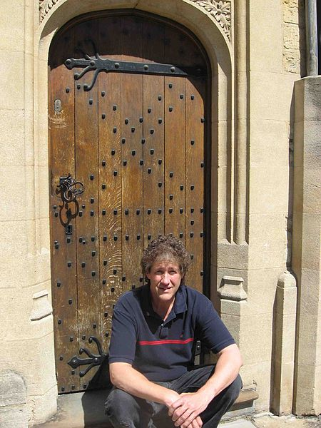 Author and historian Mark Allen Baker, Oxford, UK